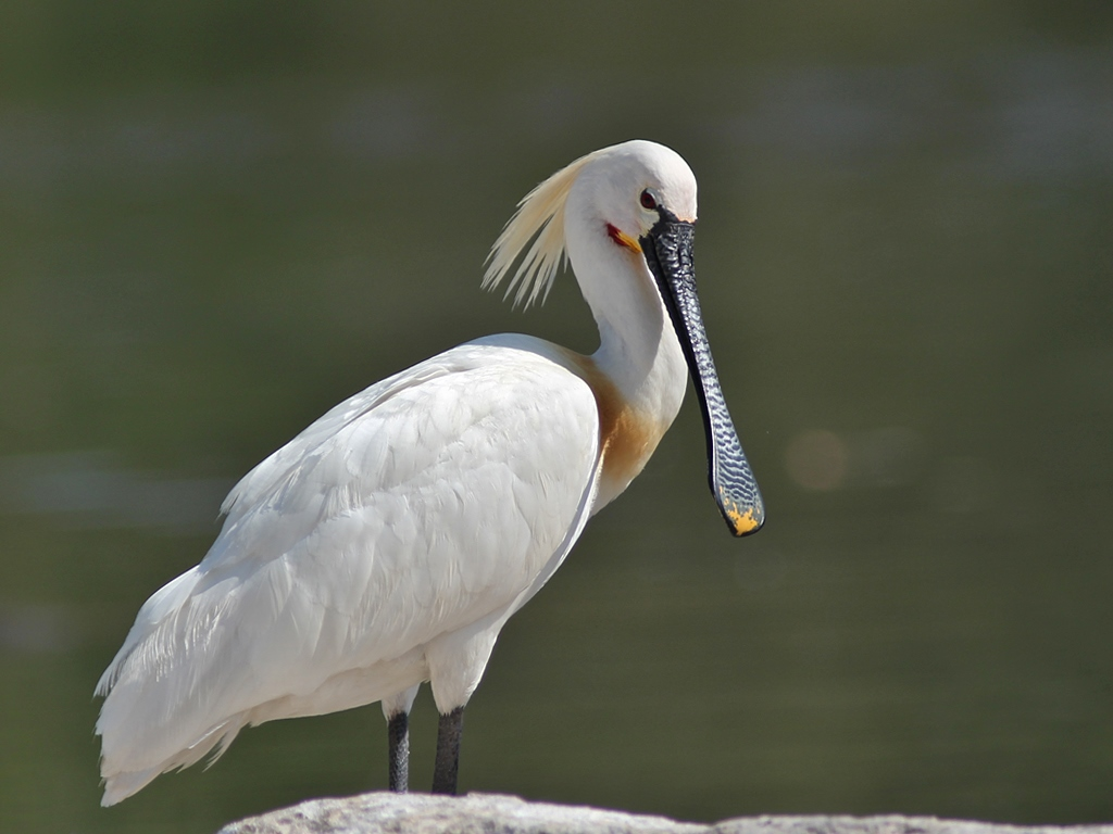 Clicked in its breeding plumage. The breeding bird is all white except for its dark legs, black bill with a yellow tip, and a yellow breast patch like a Pelican. It has a crest in the breeding season as clearly seen in this shot. Non-breeders lack the crest and breast patch, and immature birds have a pale bill and black tips to the primary flight feathers. This species is almost unmistakable in most of its range. Eurasian Spoonbills show a preference for extensive shallow, wetlands with muddy, clay or fine sandy beds